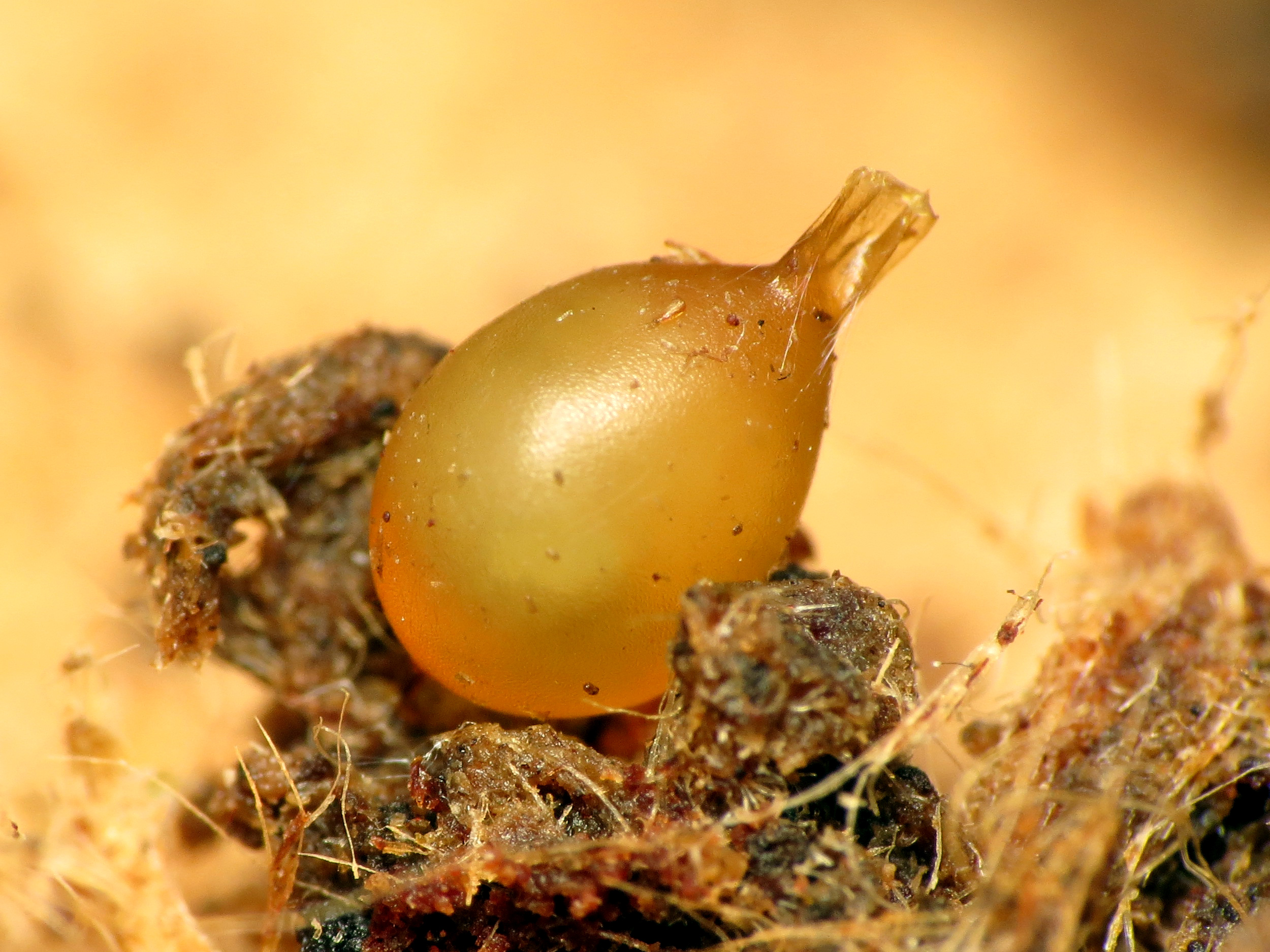 Moana, Lake Brunner, West Coast, South Island, New Zealand.